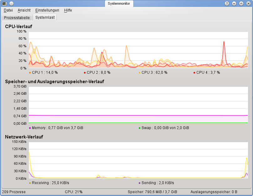 the kde taskmanager (systemmonitor)